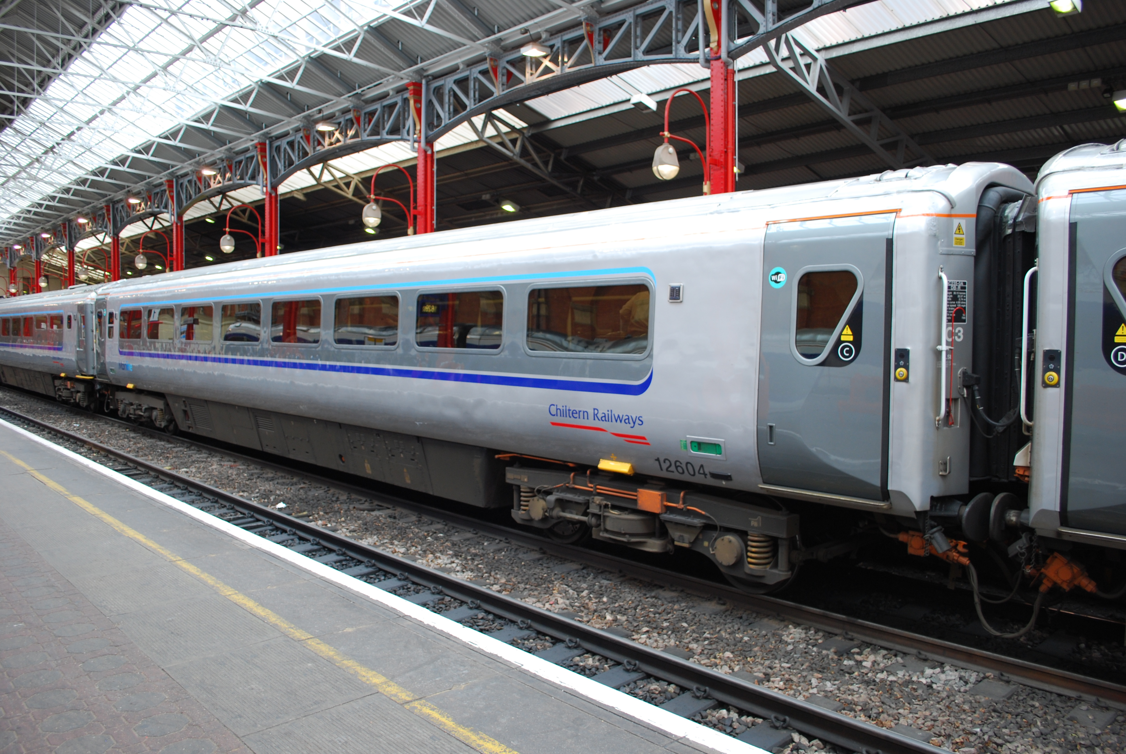 BR Mk.IIIa TSO No.12604 of Chilterns Mainline Railways at Marylebone, 09/12.